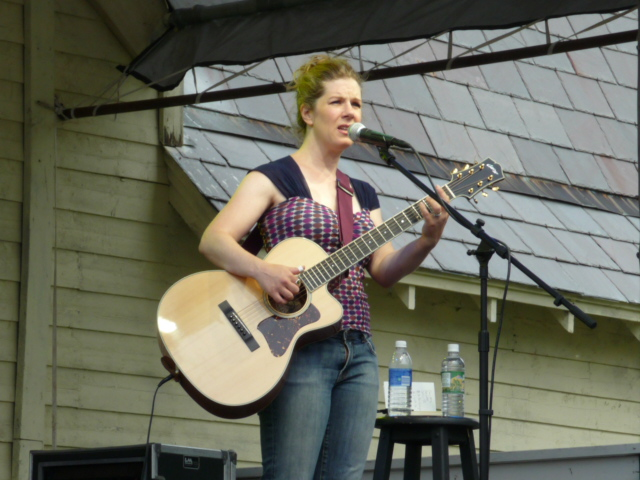 Dar Williams performing at Solarfest July 2008.